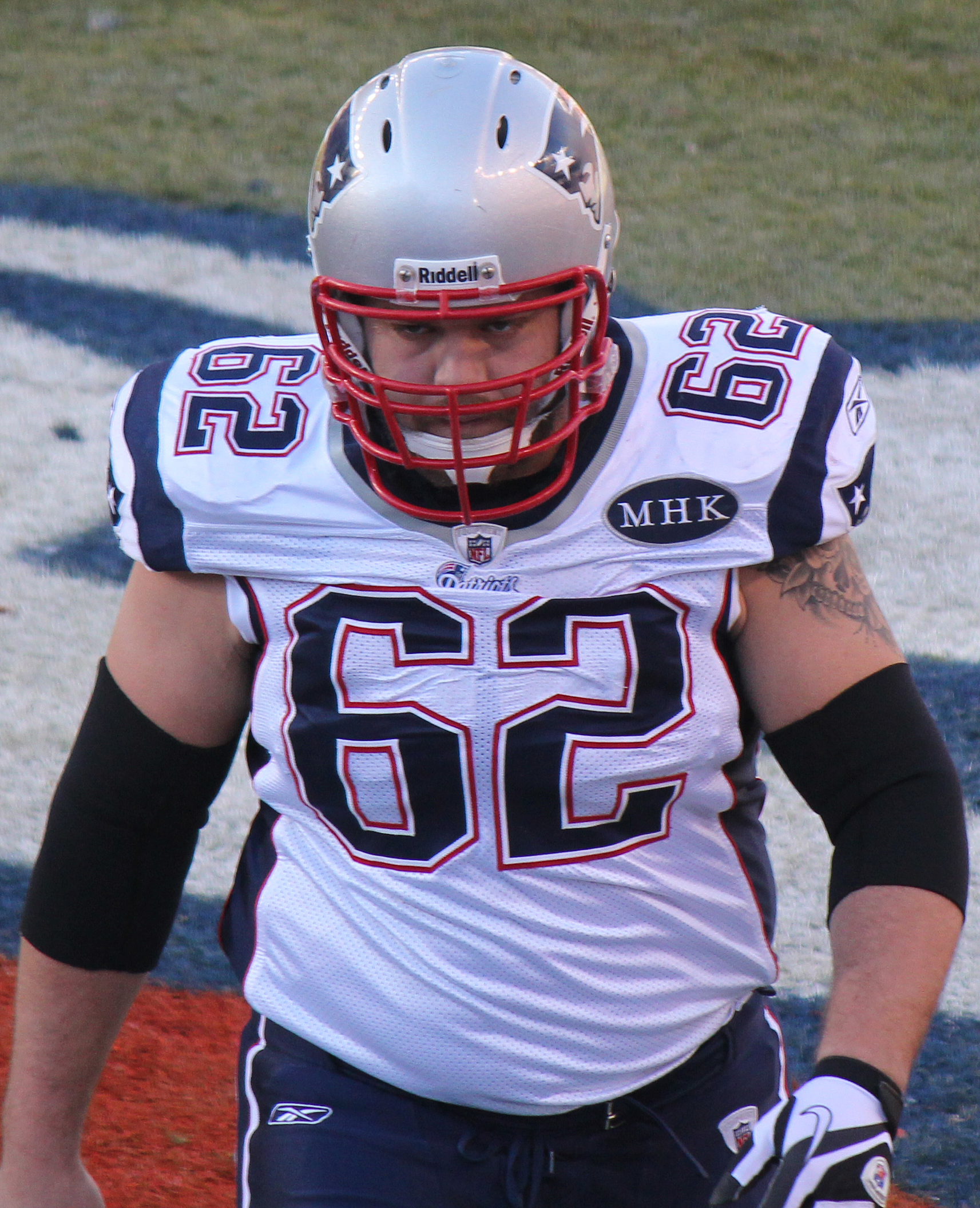 Ryan Wendell, a player on the National Football League.